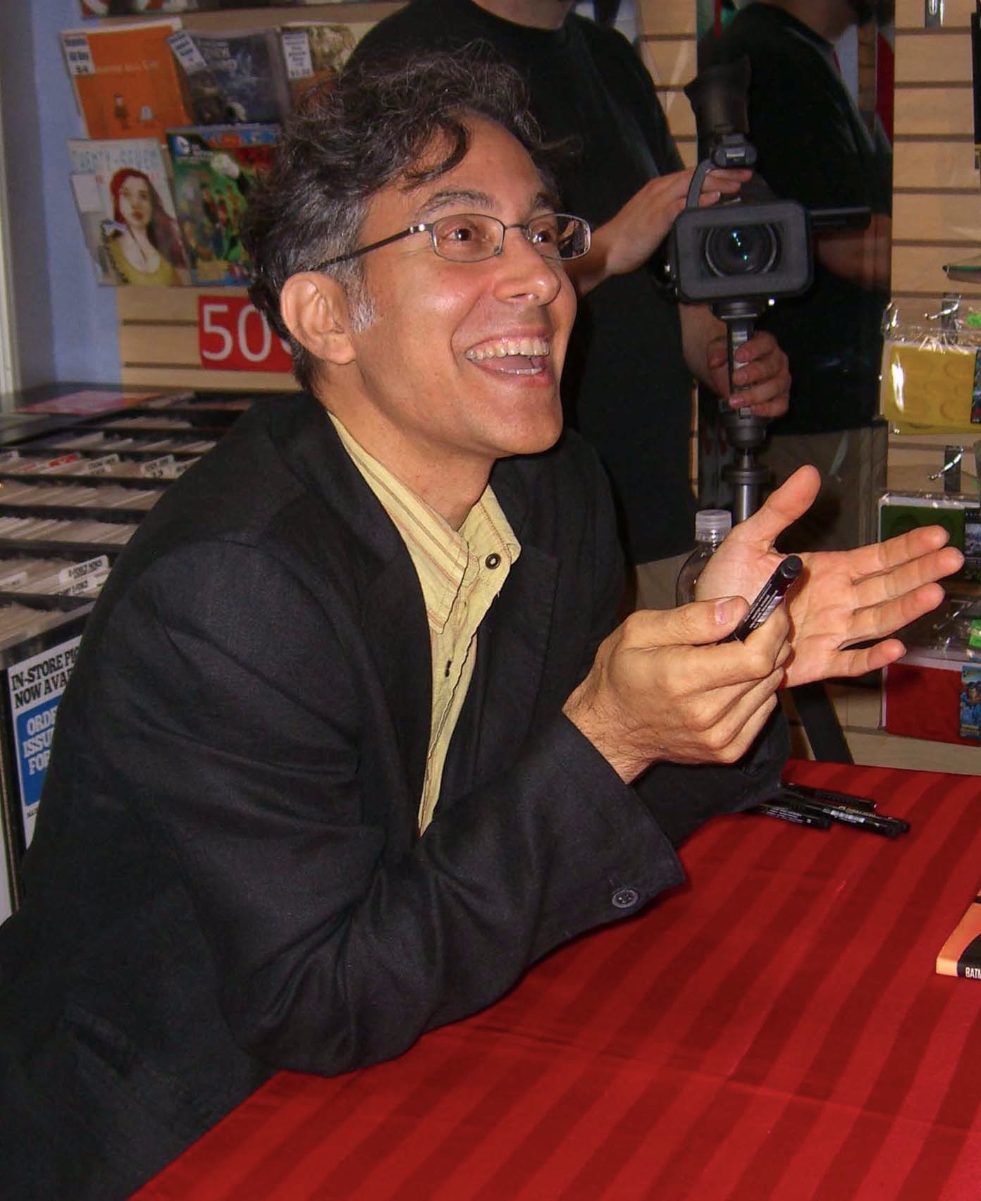 Comic book creator David Mazzucchelli at a June 28, 2012 signing for Daredevil Born Again: Artist's Edition at Midtown Comics Downtown in Manhattan. This photo was created by Luigi Novi. It is not in the public domain, and use of this file outside of the licensing terms is a copyright violation.